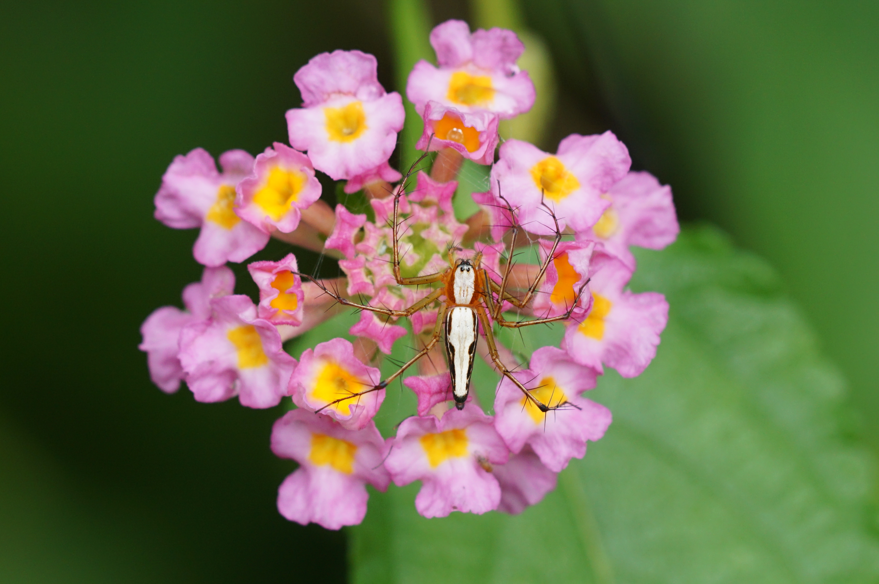 Oxyopes shweta